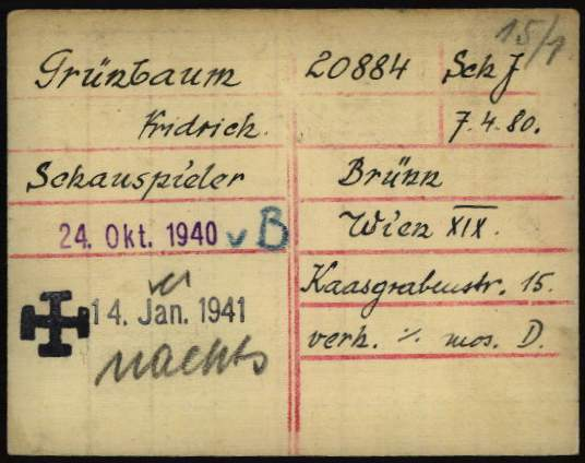 Fritz Grünbaum's prisoner registry card at Dachau Nazi Concentration Camp. "v B" (i.e. "von Buchenwald") indicates the date Grünbaum arrived at Dachau transferred from Buchenwald camp. Stamped cross indicates date of death. "J" (top right corner) and "mos." (bottom right) identifies Grünbaum as Jewish.